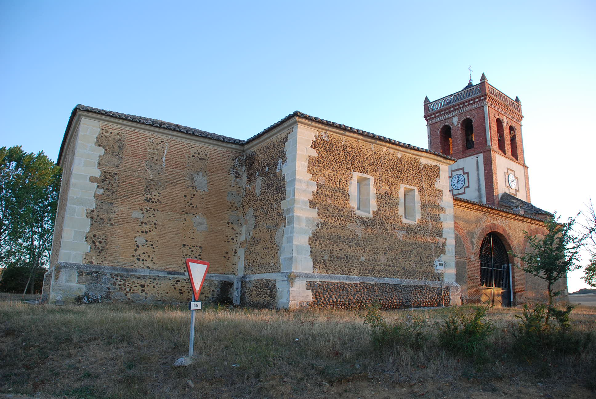 Church of Santa Cecilia in Valderrábano (Palencia, Spain). Work of masonry of boulders. It has a tower built mid-20th century of brick as well as cover of semicircular seating, preceded by portico on the side of the Gospel.